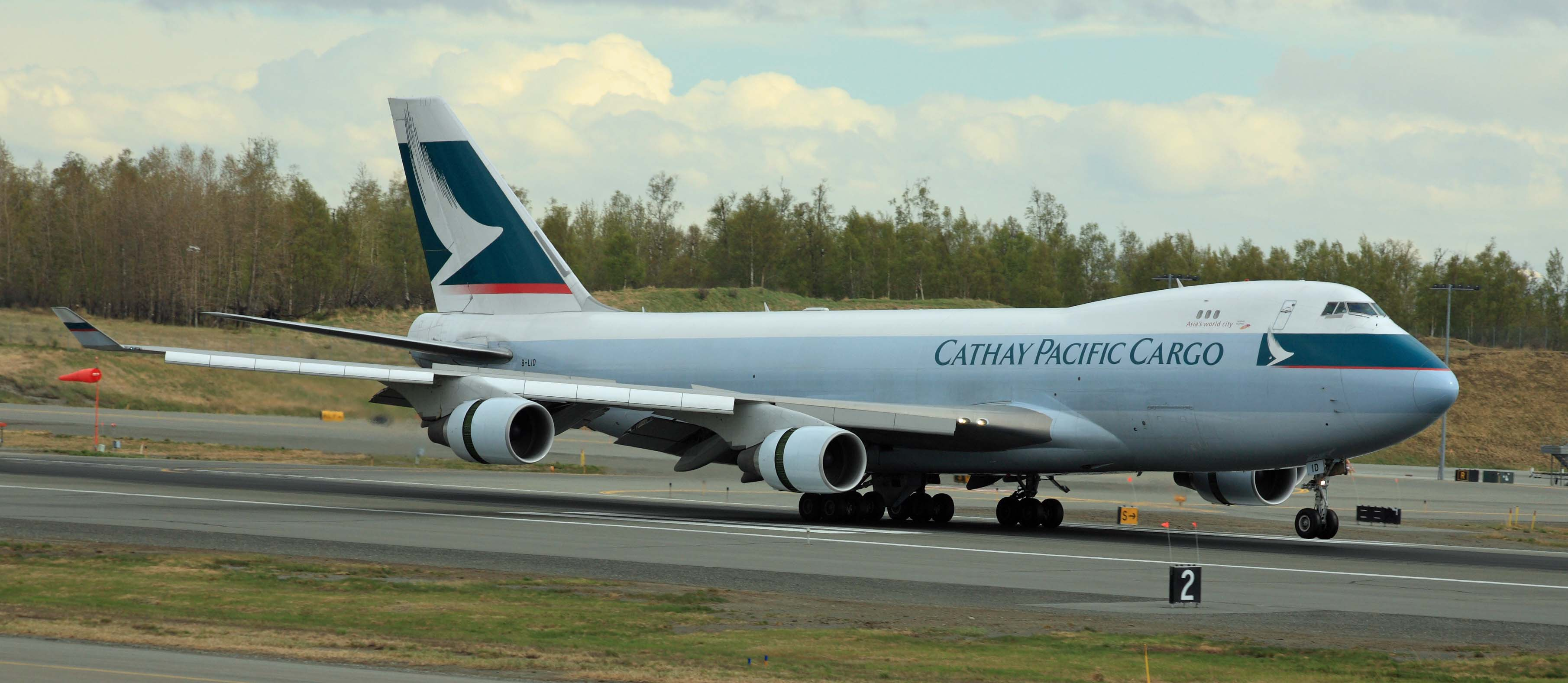 Cold, gray, blah day in May 2011; too cold and blustery for biking, chores all finished. Good time to head to the airport with a load of travel books to unwind and watch planes coming from and going to exotic locations that I can only dream of visiting. Good way to spend an hour just watching the changes in technology. I took these photos on the west side of Ted Stevens Anchorage International Airport.